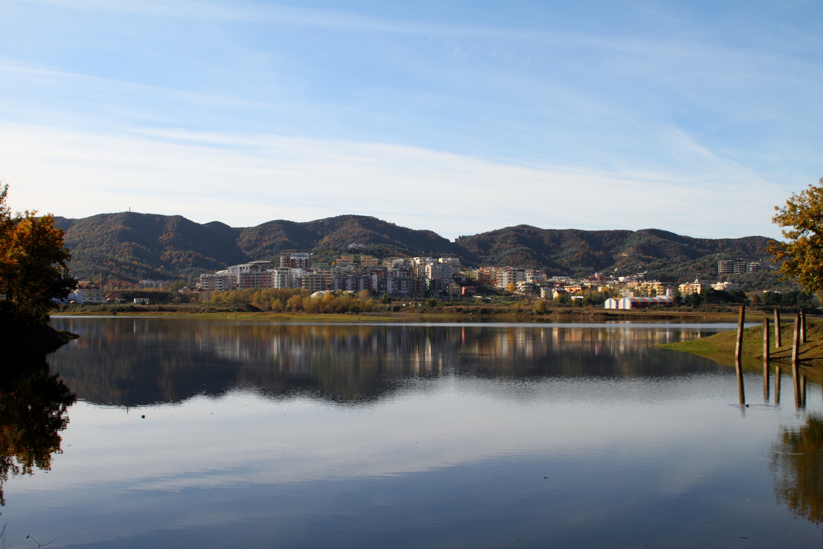 tirana lake